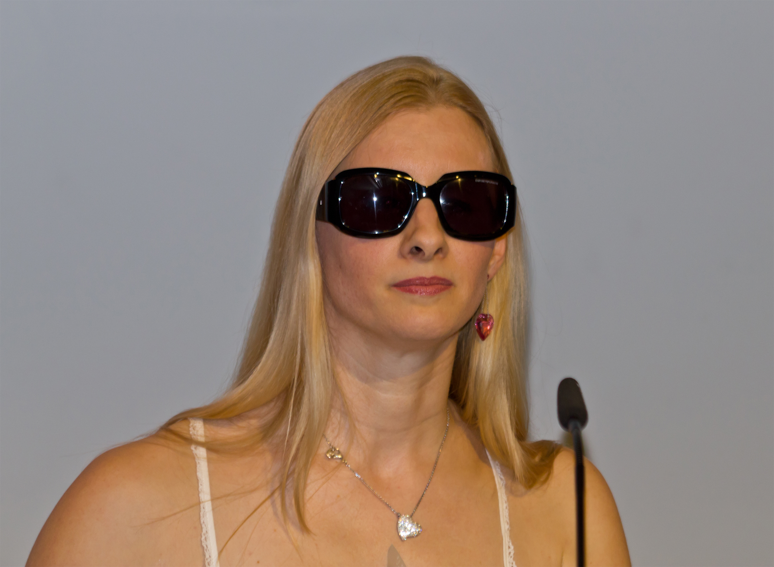 Joana Zimmer (* 1982), a female pop vocalist from Germany